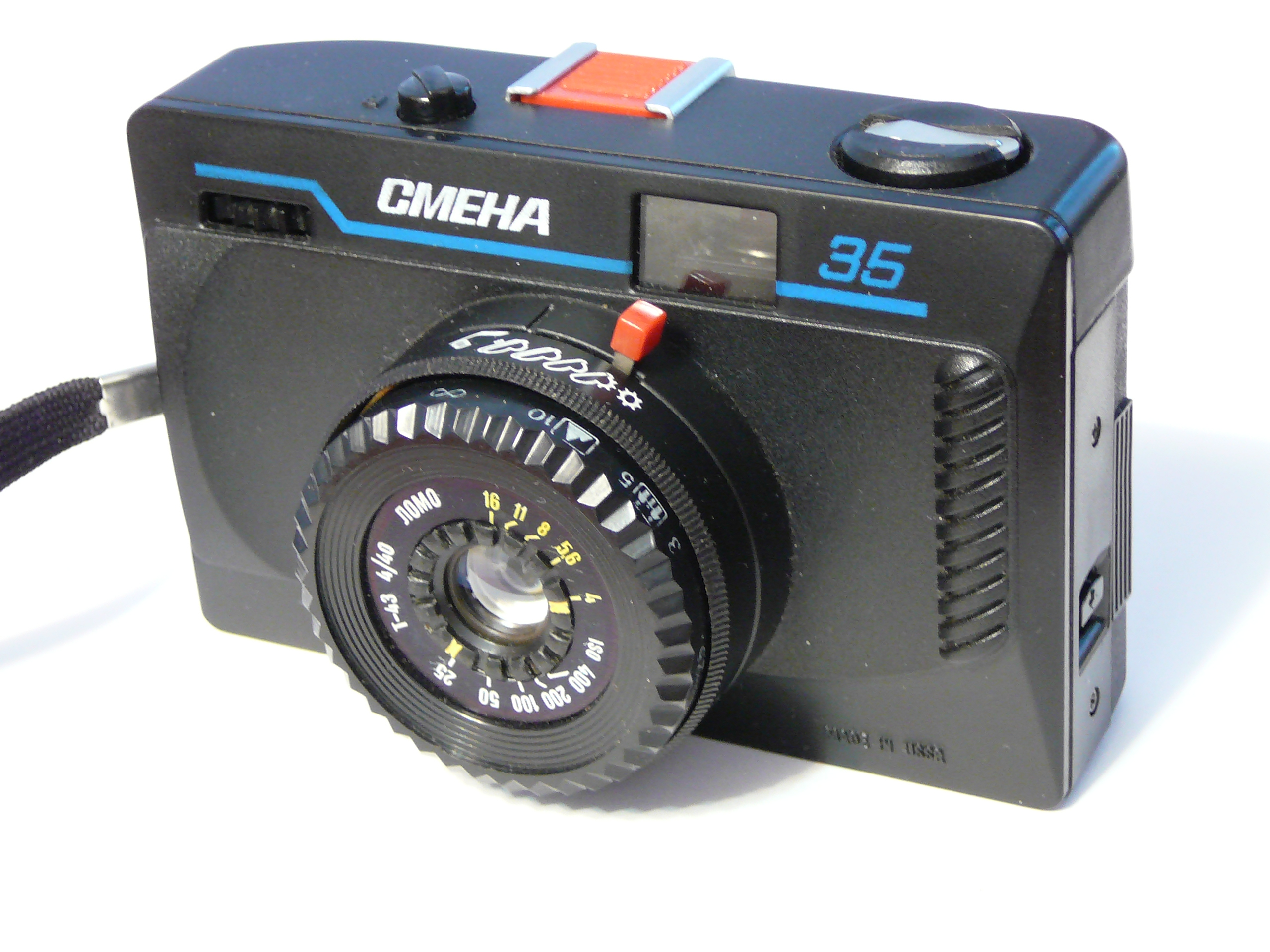 Smena-35 camera